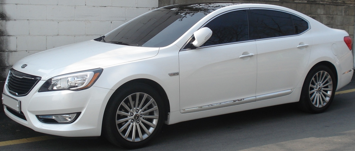 Kia K7